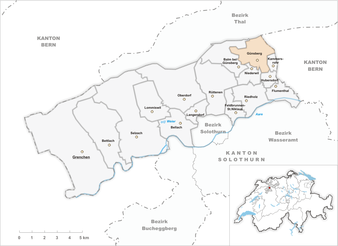 Municipality Günsberg